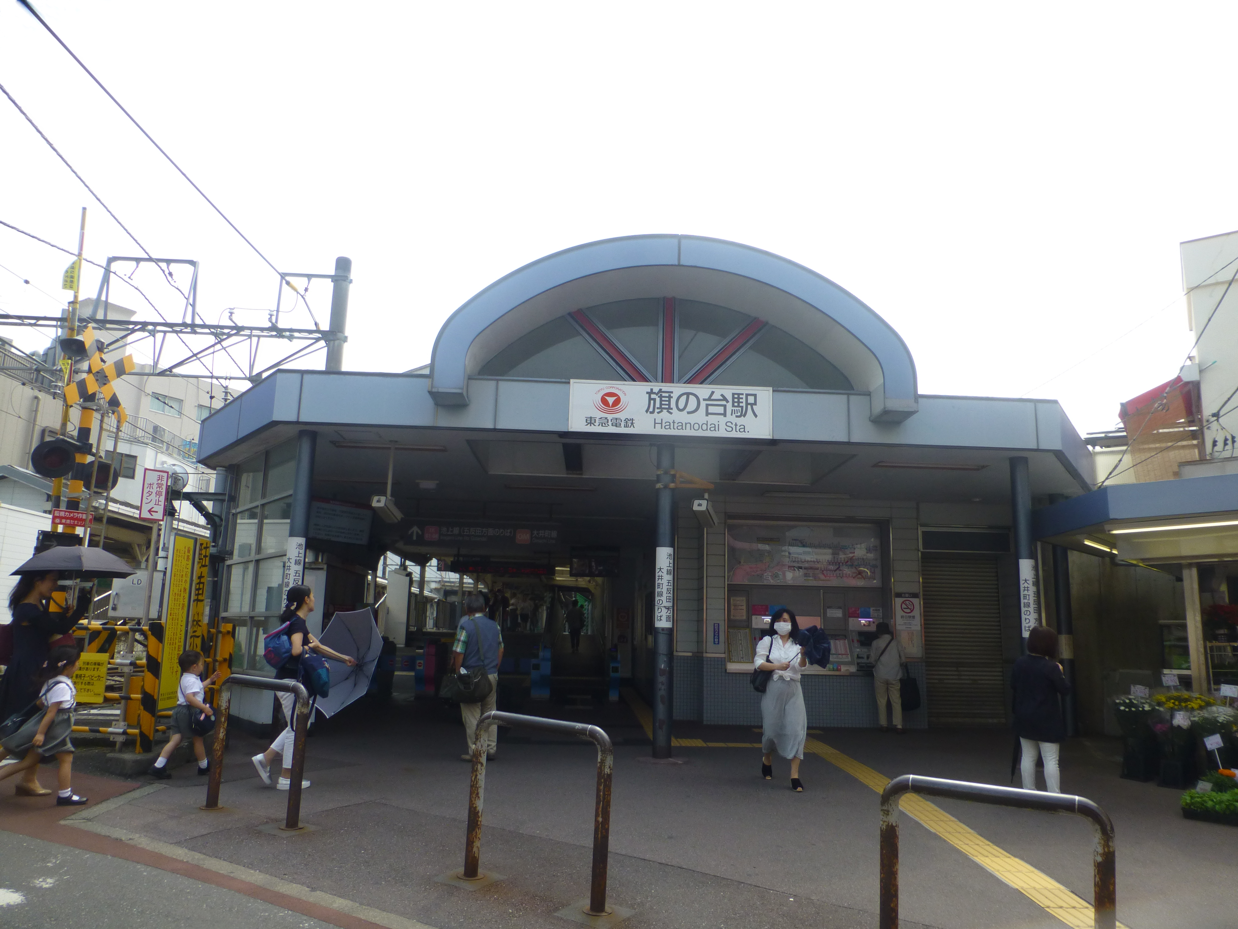 Hatanodai Station east exit (旗の台駅、東口) Panasonic Lumix DMC-TZ30